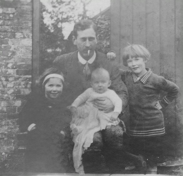 Hugh Popham and his three children at Draycot